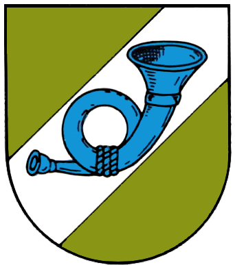 Coat of Arms of Esselbach